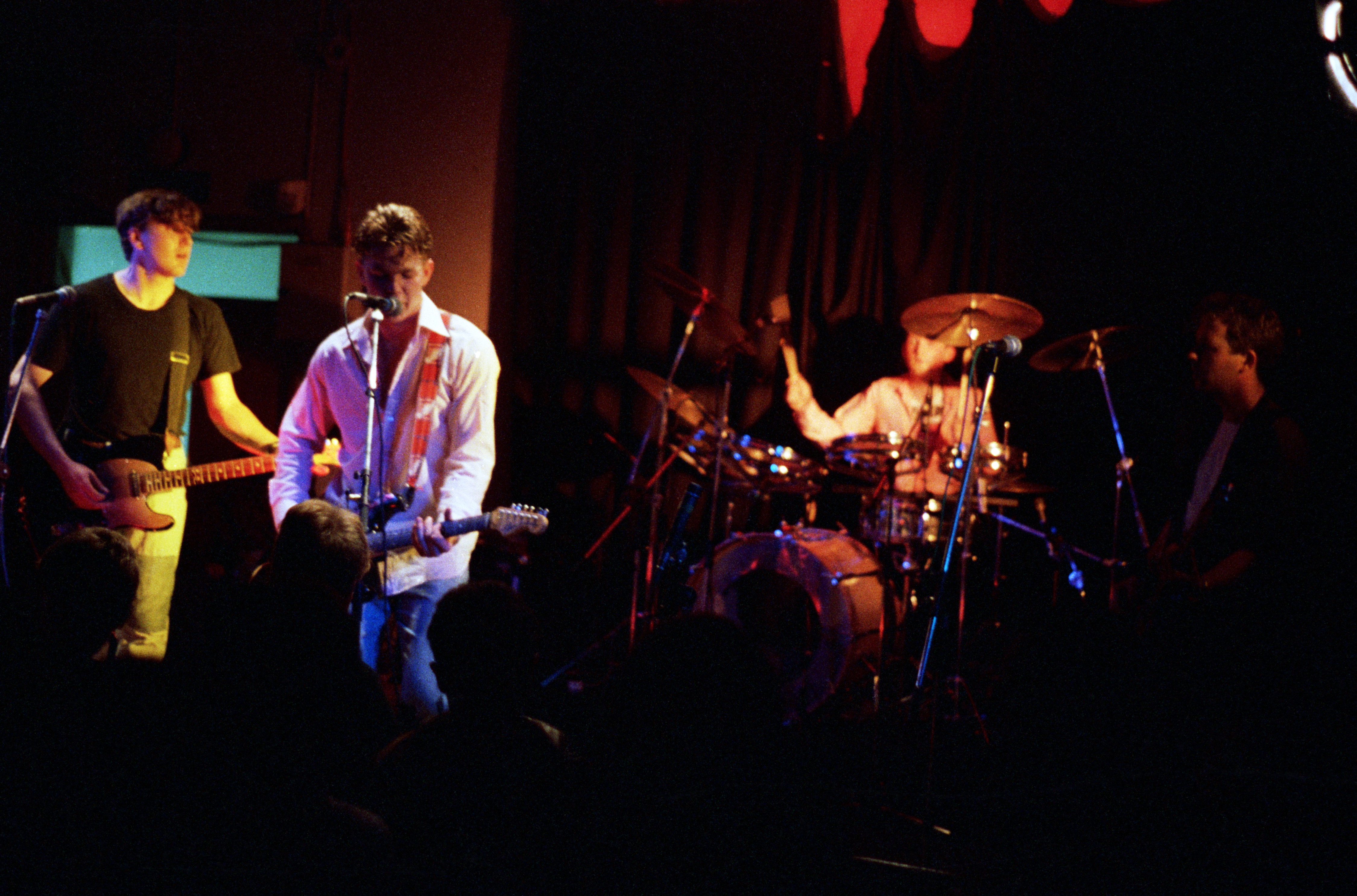 Y Cyrff. Roc Ystwyth concert, Aberystwyth, 1987. Image by Medwyn Jones